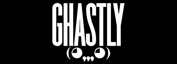 My work